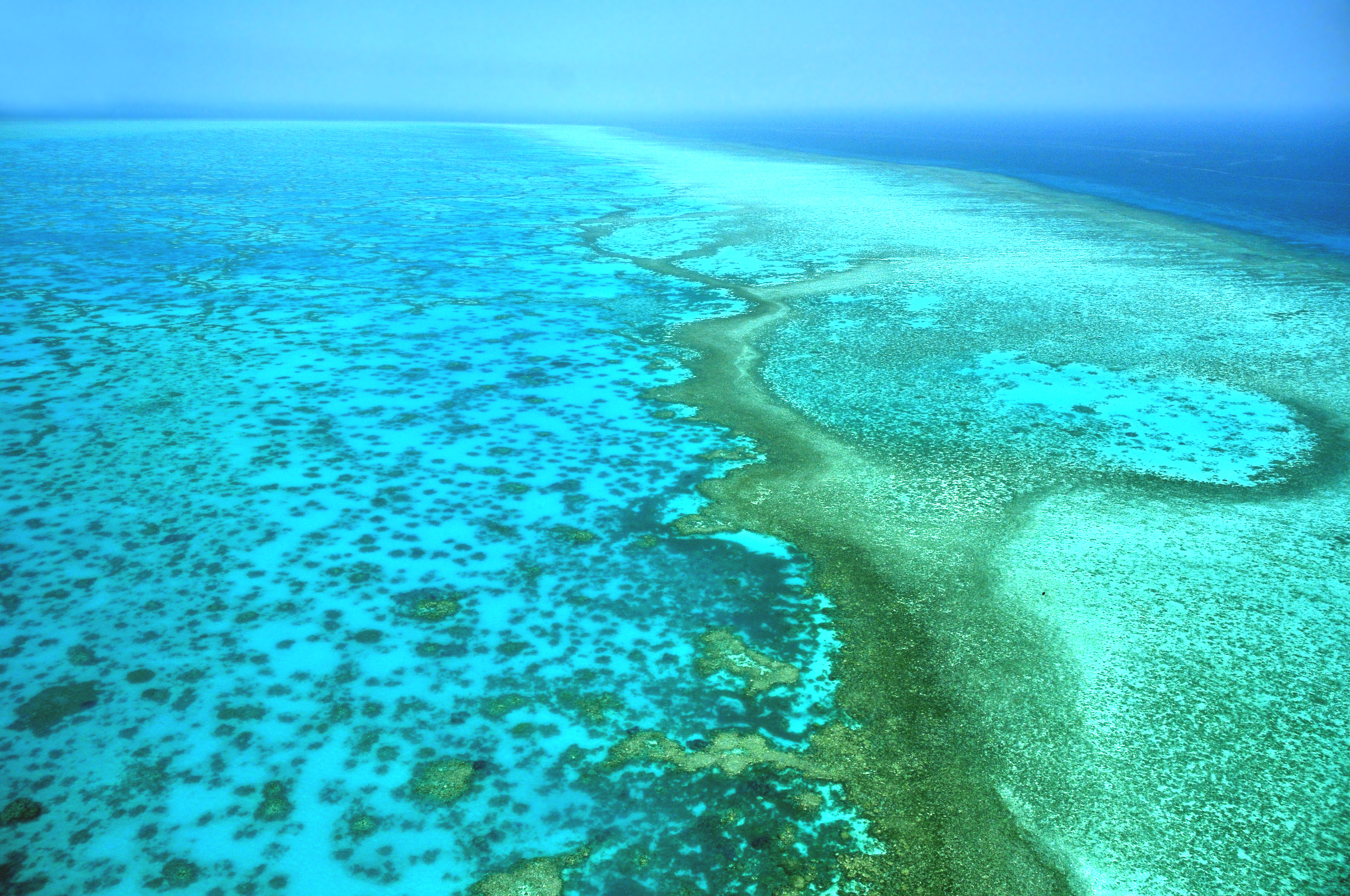 Aerial view of the Great Barrier Reef, nearby the Capricorn Group, Queensland, Australia